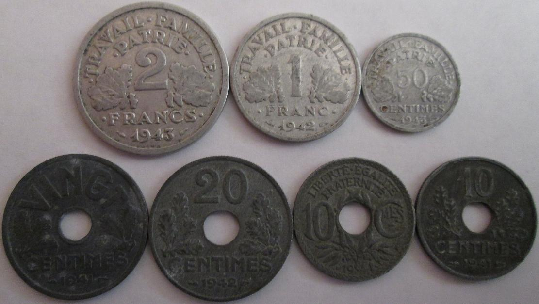 Vichy French zinc & aluminum coins made during World War II.